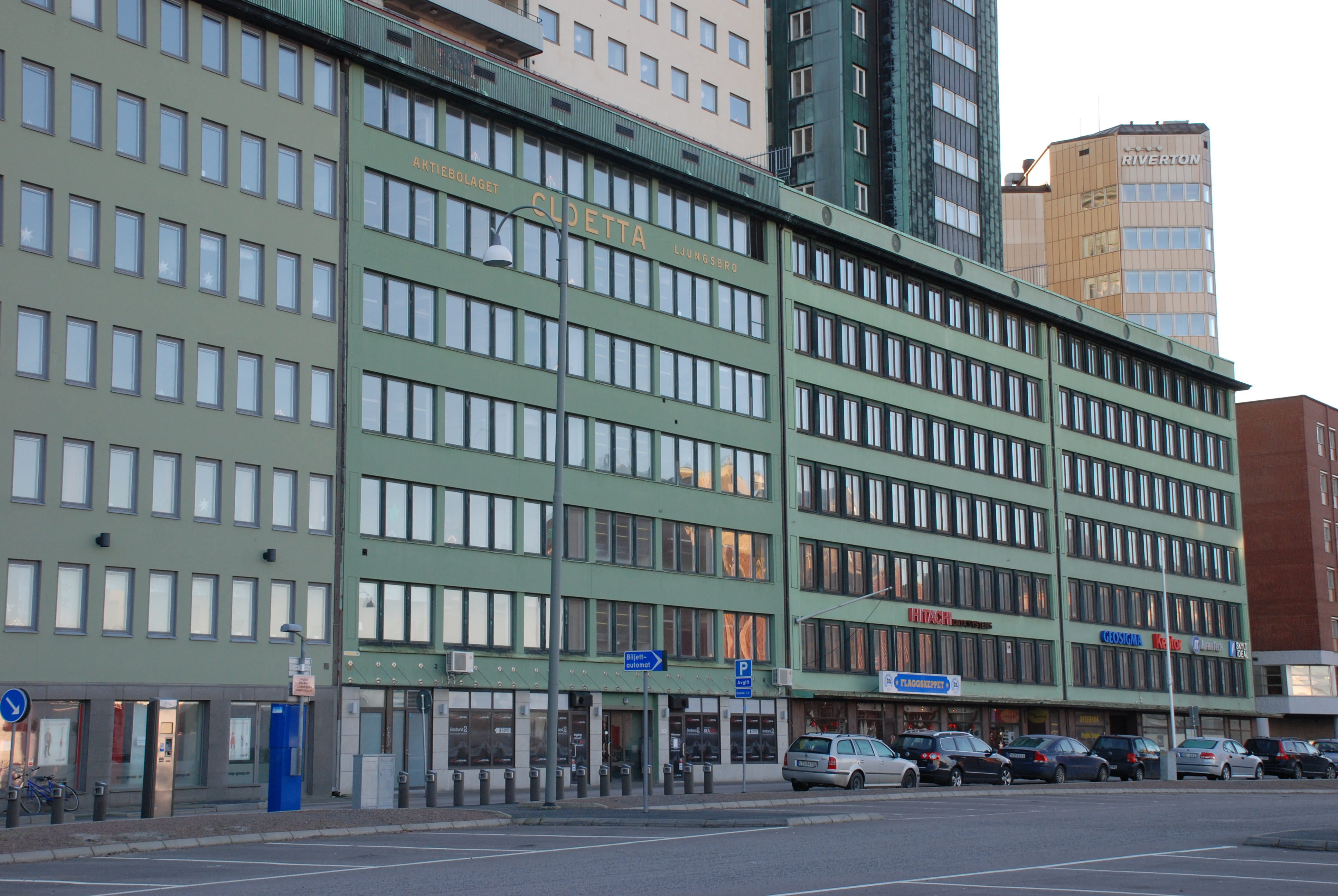 Stora Badhusgatan and the Cloetta house in Göteborg.